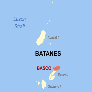 Map of Batanes showing the location of Basco